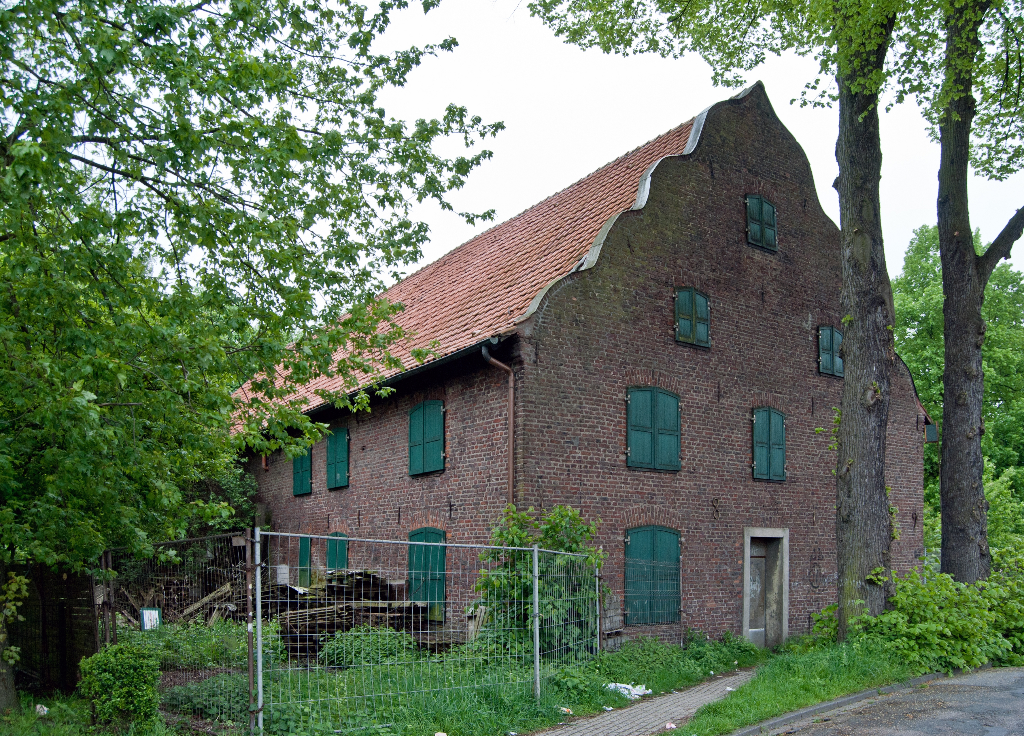 Duisburg (North Rhine-Westphalia, Germany) – borough Walsum – brick farmhouse Vierlindenhof built in 1819 with a notably late baroque gable This image shows a heritage building in Germany, located in the North Rhine-Westphalian city Duisburg (no. 43). This photograph was taken with a Nikon D3000